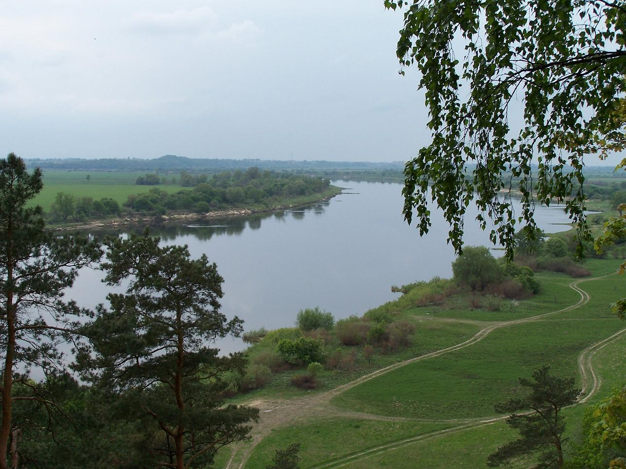 The Nieman (Lithuanian: Nemunas) River, near Neman, Kaliningrad Oblast, Russia (formerly Ragnit, East Prussia, Germany), taken from the Lithuanian side of the river in 2006.